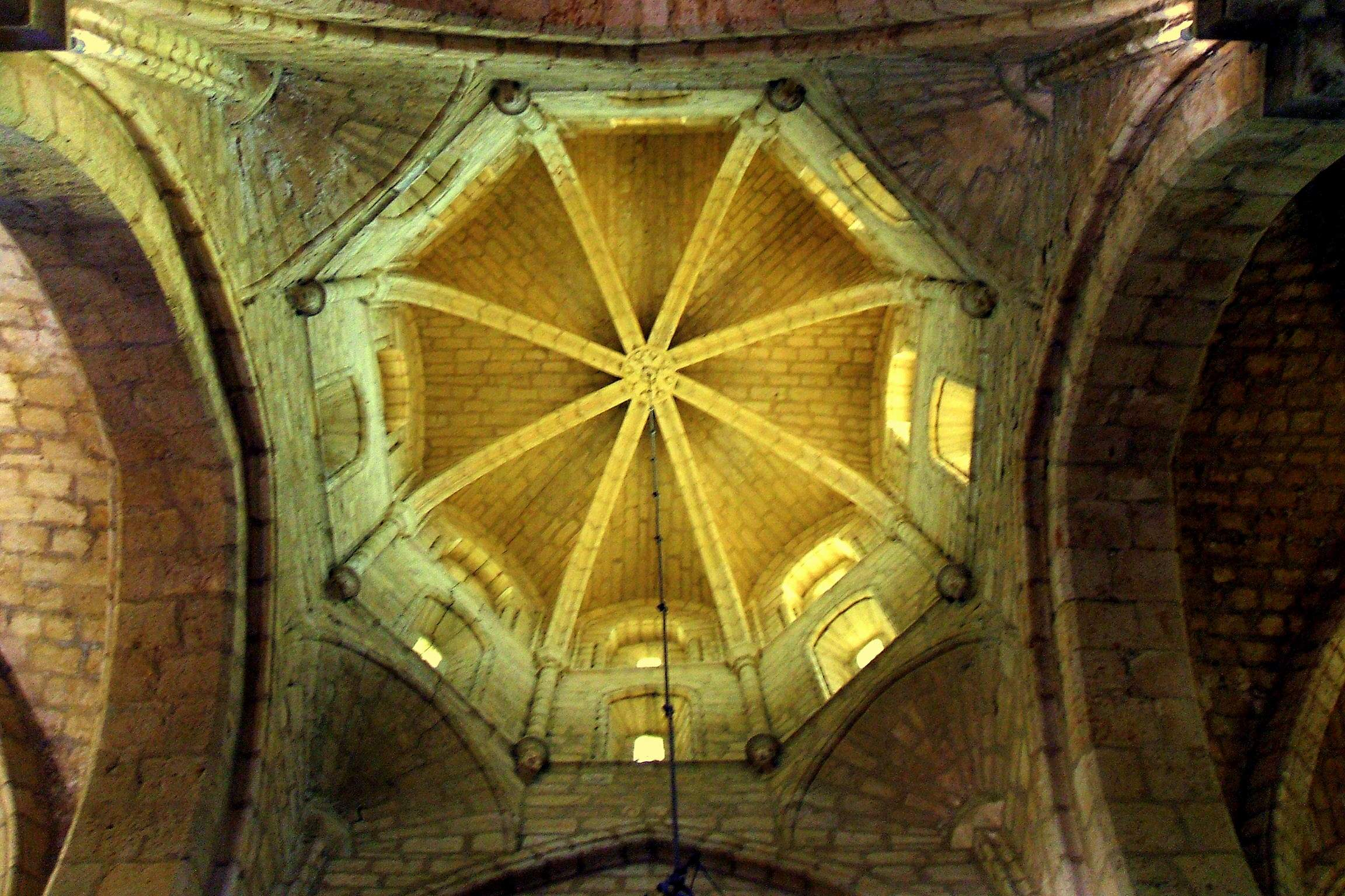 Bóveda octogonal del crucero de la iglesia de Santa María la Mayor de Villamuriel de Cerrato, Palencia, Castilla y León, España